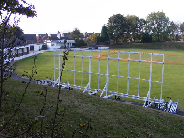 Old Hill C C The Cricket Club off Barrs Road, Haden Hill.